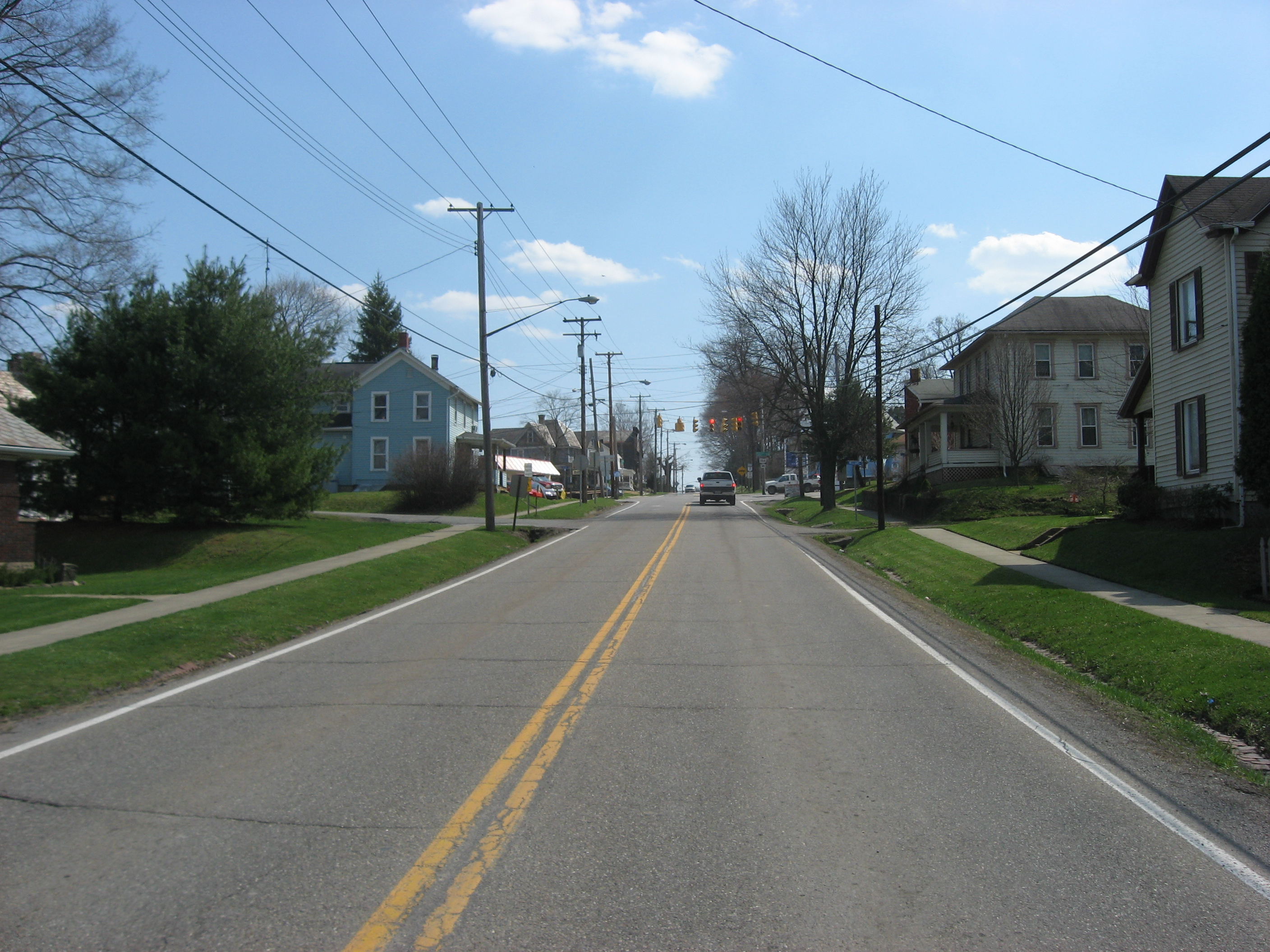 Coming into Rogers, Ohio, United States from the north on Depot Street (State Route 7).